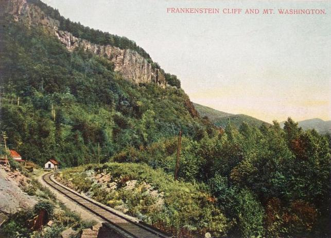 Frankenstein Cliff and Mount Washington, White Mountains, New Hampshire. The cliff was named after German-born artist Godfrey Frankenstein (1820-1873).